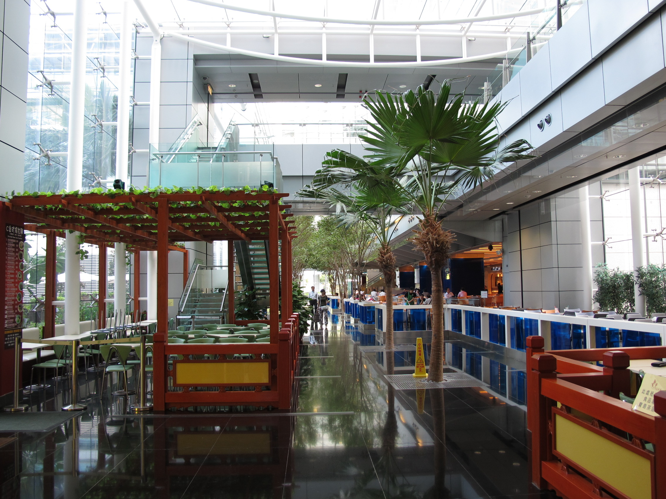 Hong Kong Science Park Phase 1 Core Buildings Restaurants